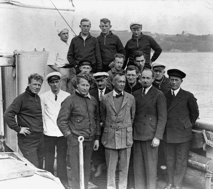 Members of the Ellsworth Expedition to Antarctica on board a ship in an unidentifed harbour, circa 1933. Pictured are: William Lanz (radio operator), Chris Braathen (aviation mechanic), Bernt Balchen (pilot), Lincoln Ellsworth (leader), Sir Hubert Wilkins (advisor), Captain Baard Holt. Others in the expedition who are probably present are: Dr Dana C Coman (medical officer), Dr Holmboe (meterological officer), Olsen (first mate and relief pilot), Liavaag (second mate), Holmboe (chief engineer, Bigsth (assistant engineer) and Larsen (cabin boy).